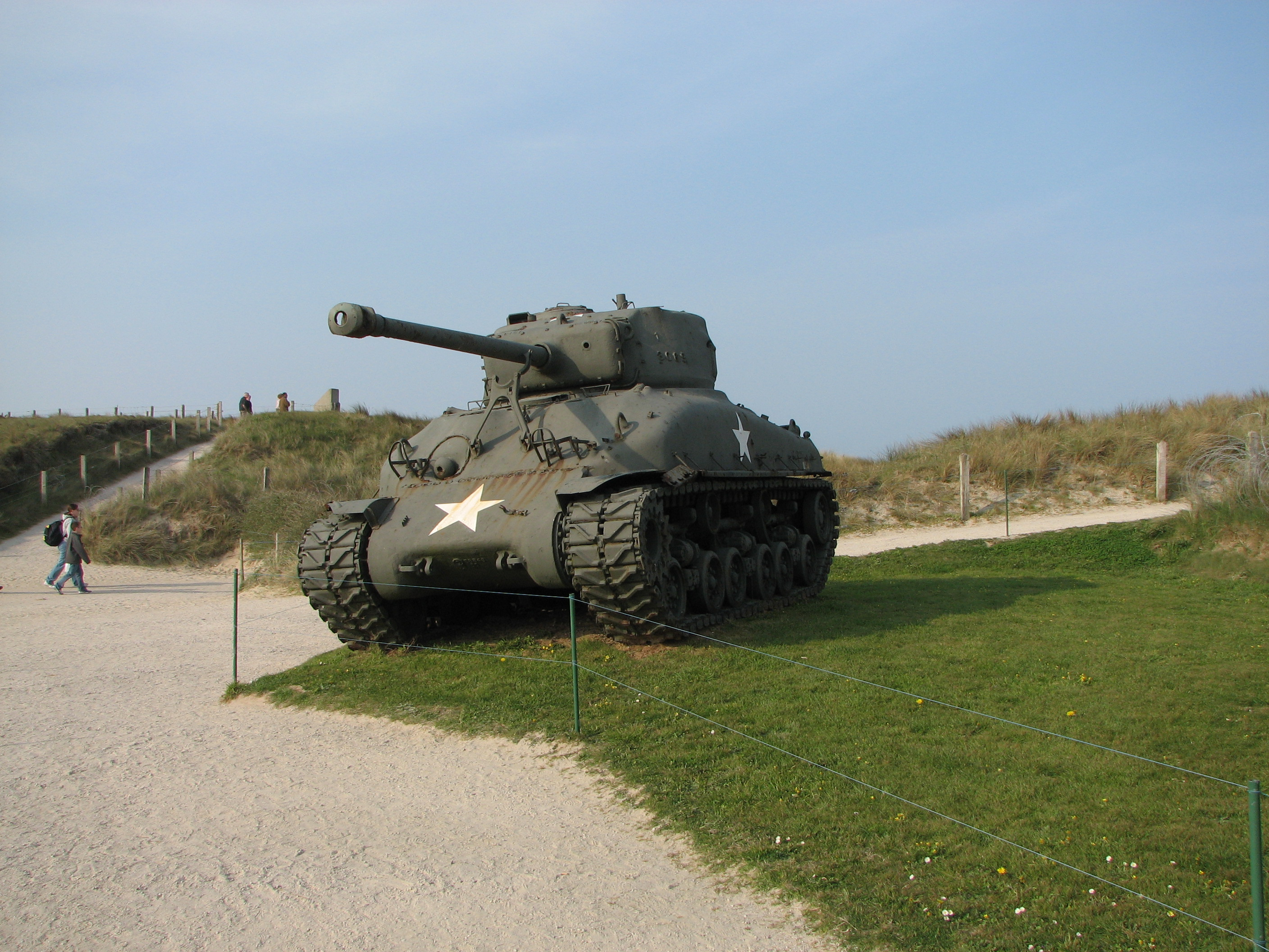 Tank Sherman exposé sur le site d'Utah Beach Sherman tank on the Utah Beach